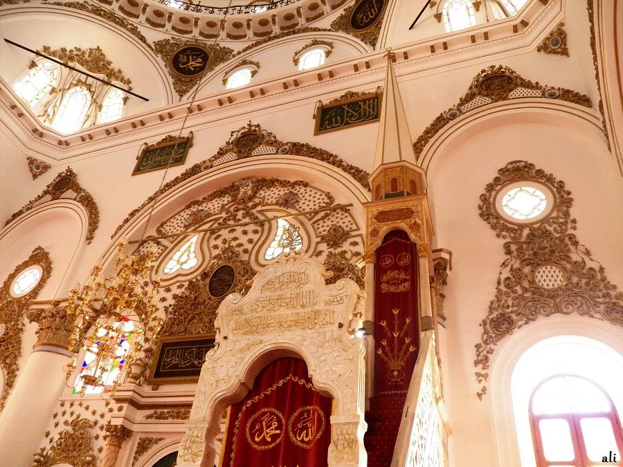 Interior of the Hisar Mosque in İzmir